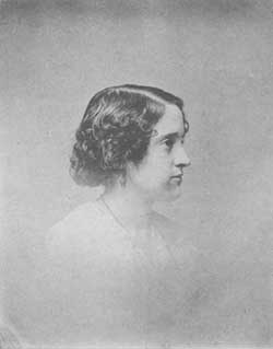 Mattie Griffith Browne, c.1880. This photo comes from the Massachuetts Historical Society. Photomechanical Image: 7 cm x 5.5 cm; whole page (visible in large image): 22.8 cm x 15.2 cm From Portraits of American Abolitionists (a collection of images of individuals representing a broad spectrum of viewpoints in the slavery debate) Photo. 81.302